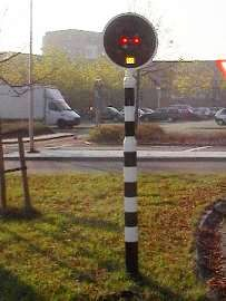 Tram signal in Zwolle, the Netherlands